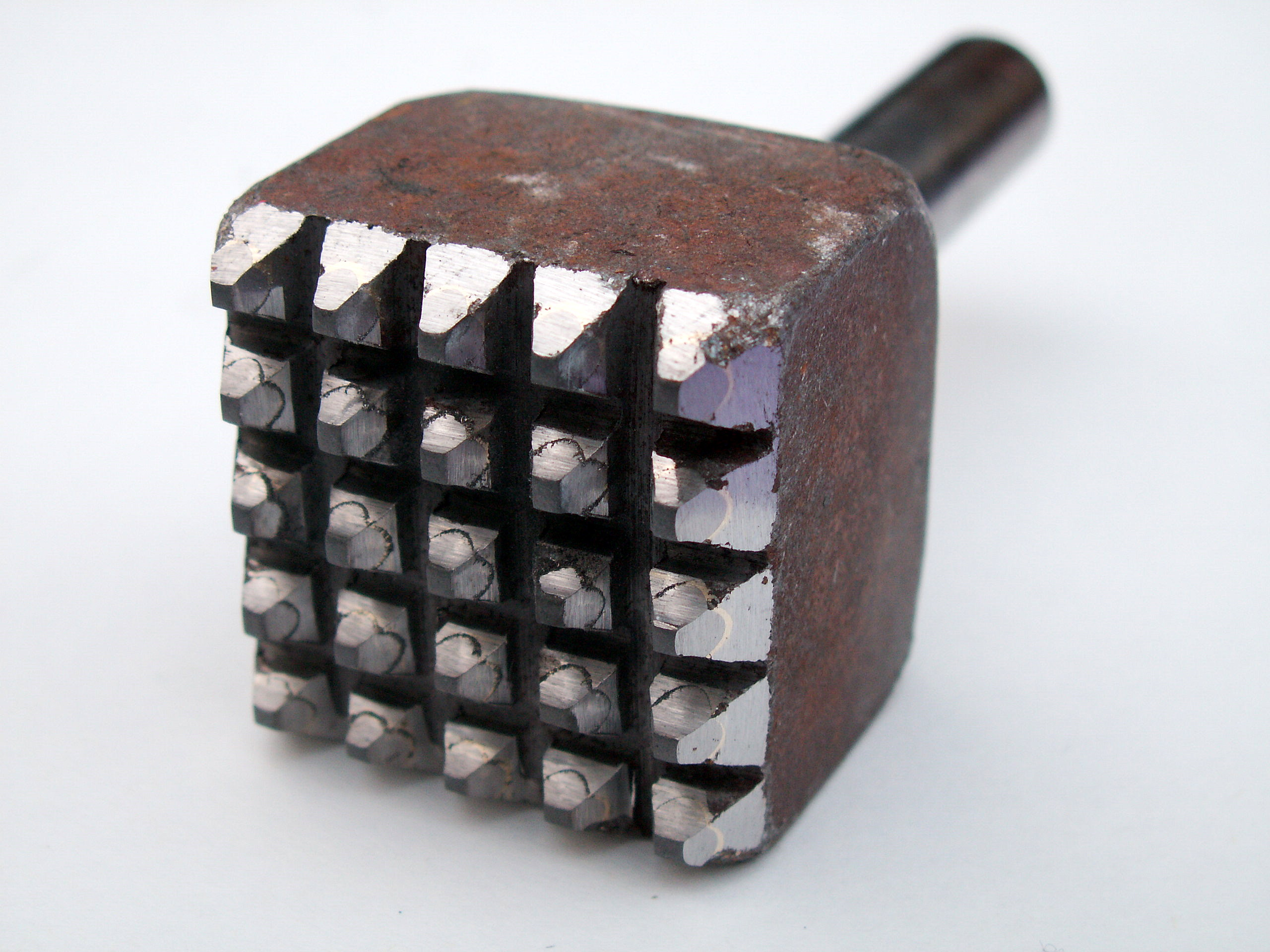 a type of stone chisel